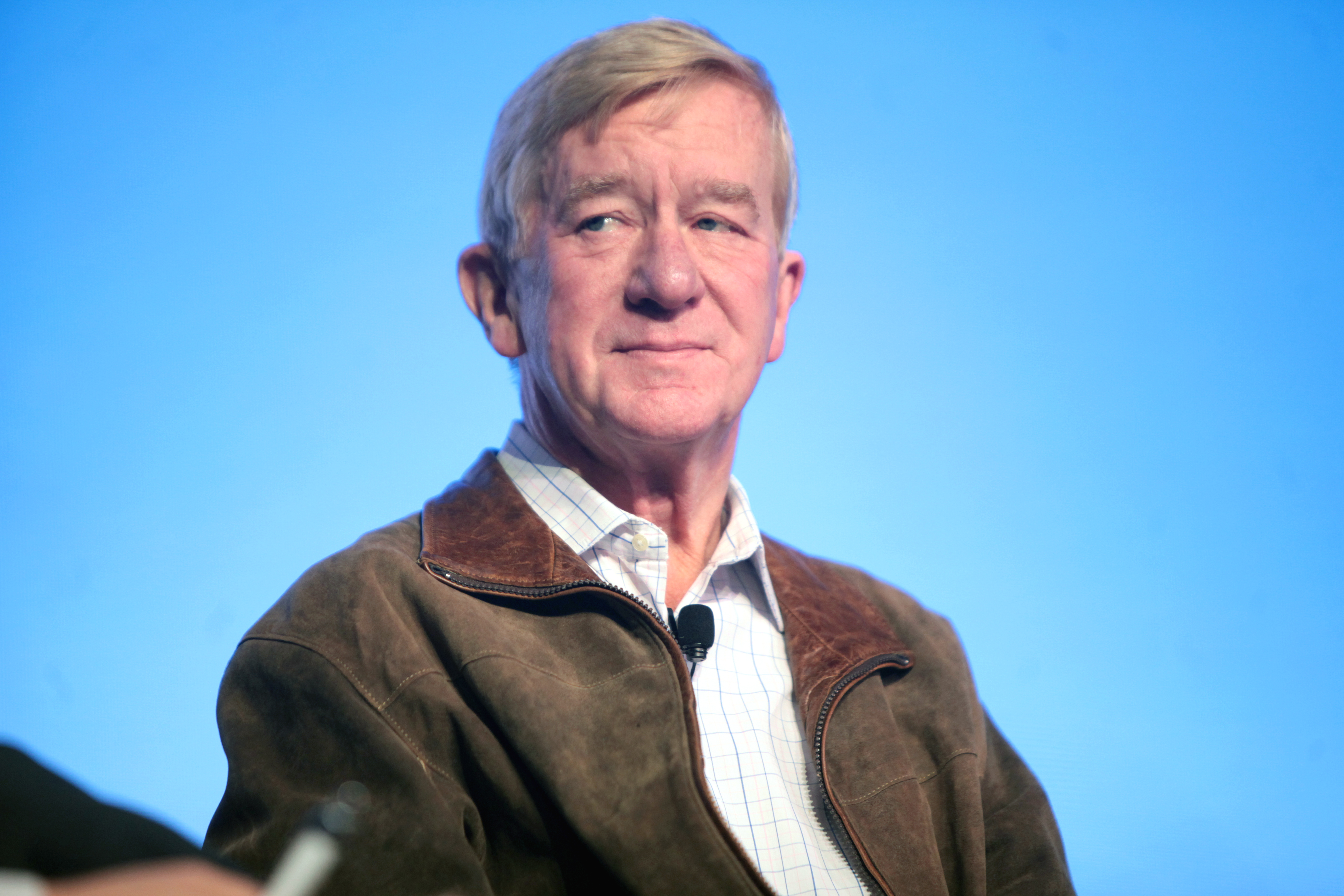 Former Governor William Weld of Massachusetts speaking at the 2016 FreedomFest at Planet Hollywood in Las Vegas, Nevada.